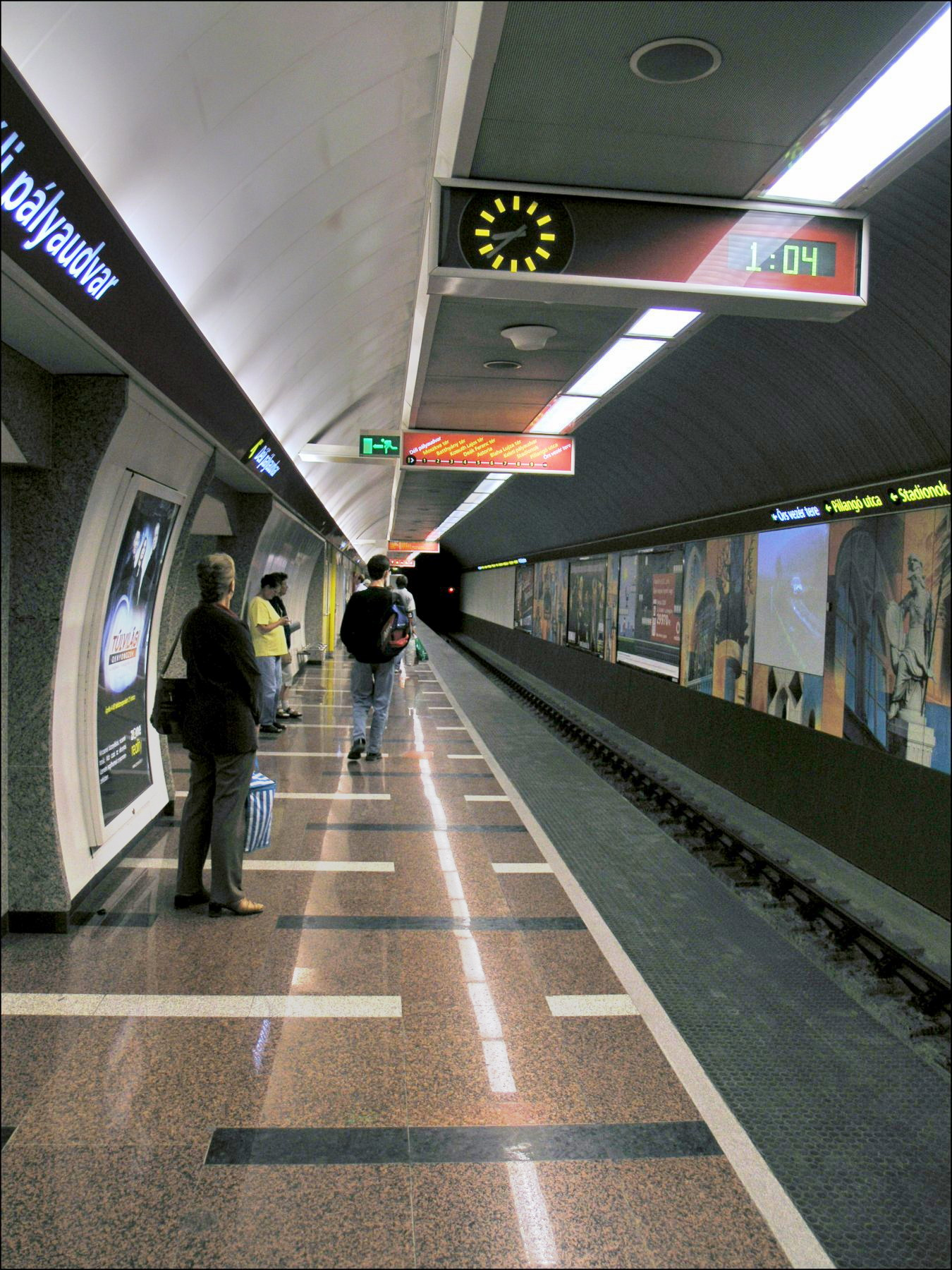 Budapest - metro station Déli pályaudvar